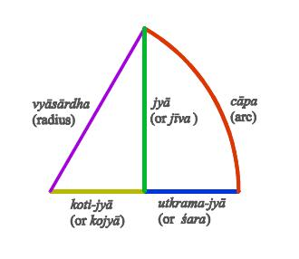 My own creation. First created using Autocad 2007, then plotted as a PDF file. Took a snapshot and saved in the JPG format.